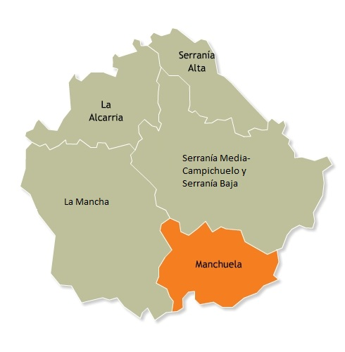 Situation of Manchuela in the province of Cuenca.